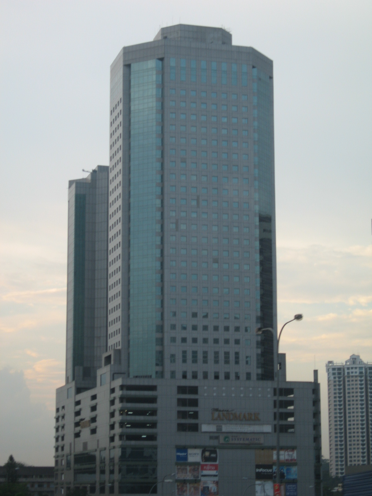 Menara Landmark, Johor Bahru.